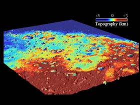 NASA Mars Global Surveyor